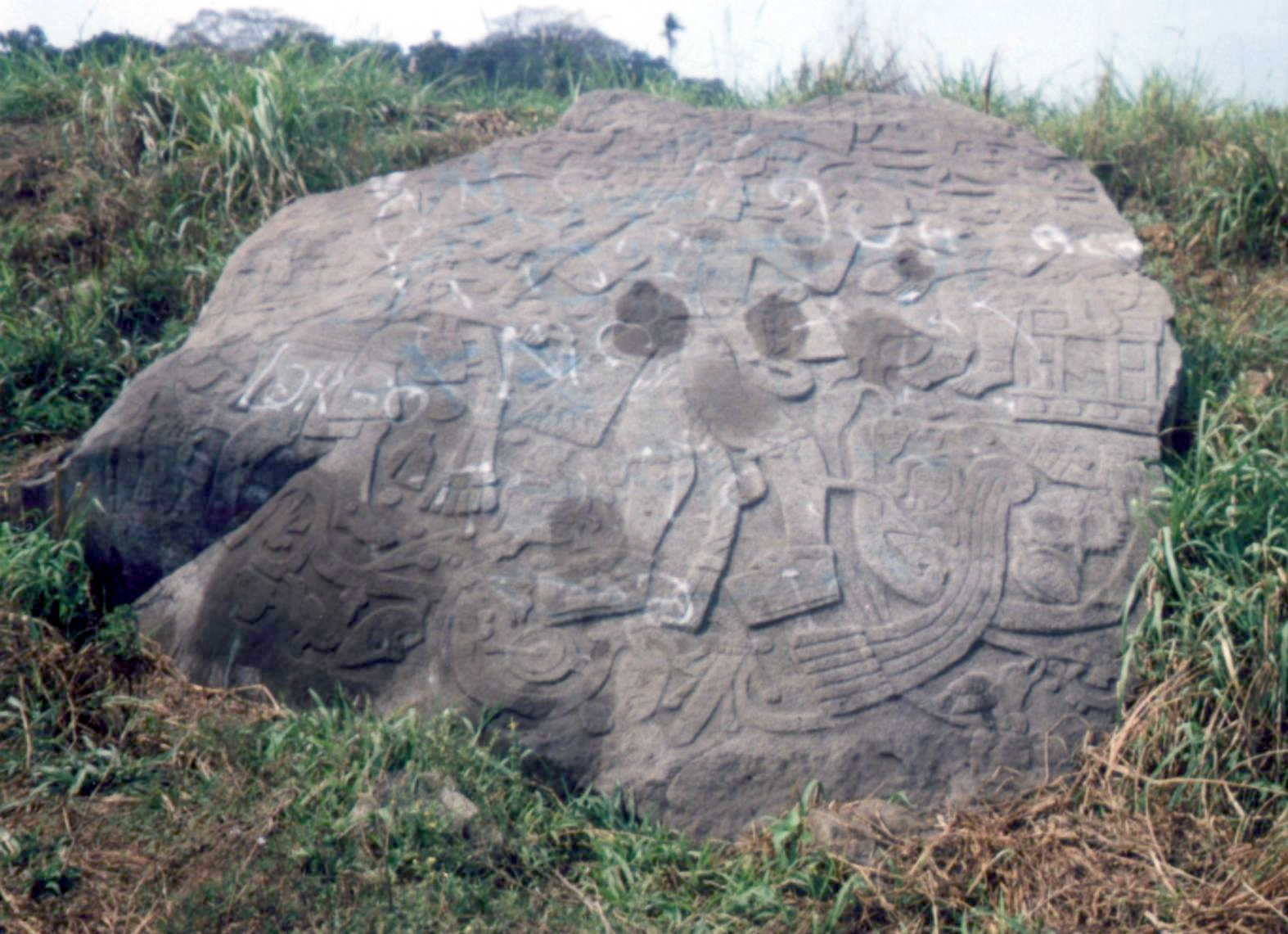 Monument 21 at Bilbao (Mesoamerican site) — near Santa Lucia Cotzumalguapa, Escuintla, Guatemala. Bilbao was a major centre belonging to the Cotzumalhuapa culture with its main occupation dating to the Late Classic (c. 600–800 CE)